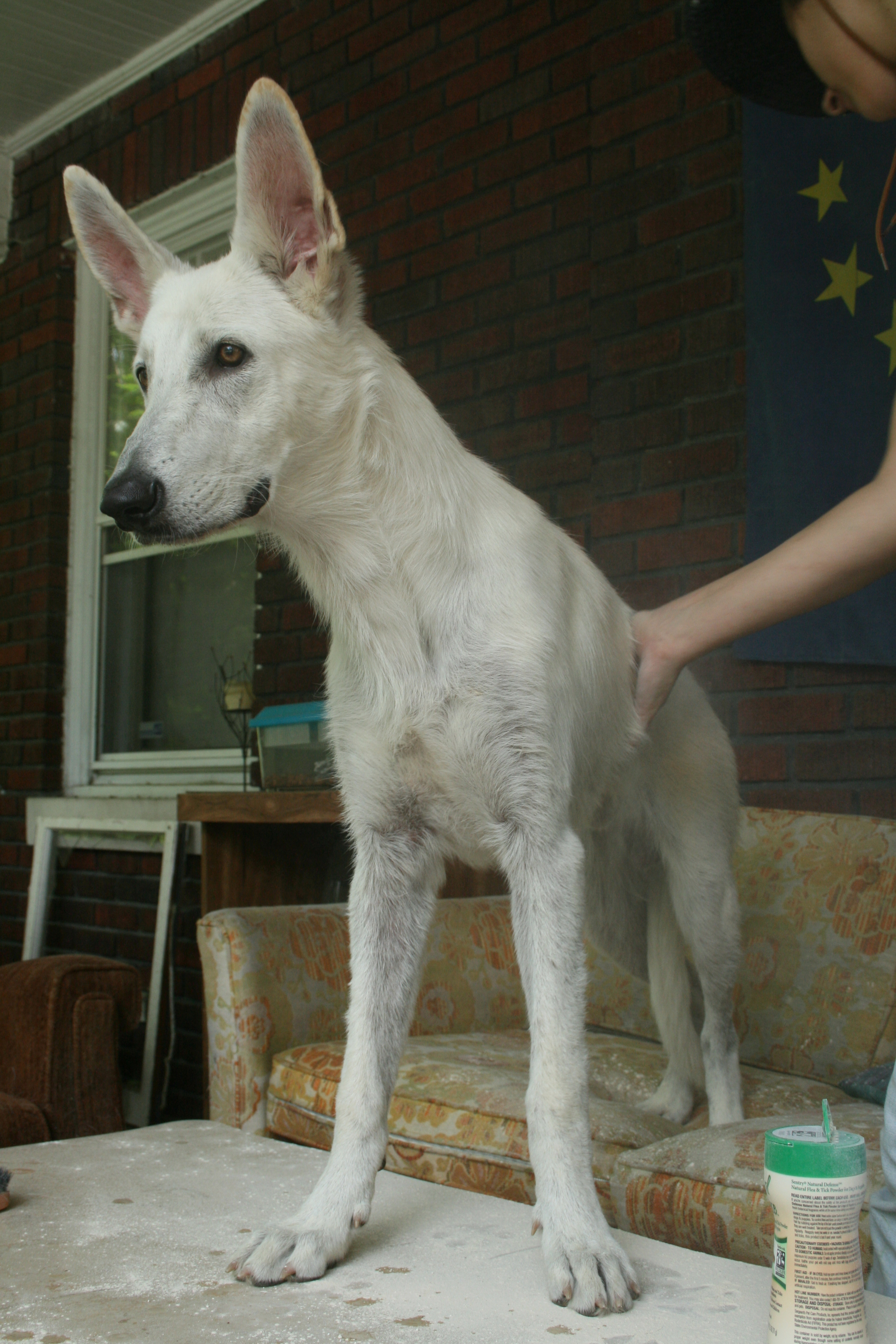 Applying natural flea and tick repellent powder to an eight-month-old White German Shepherd pup on the porch of a house in Durham, North Carolina.